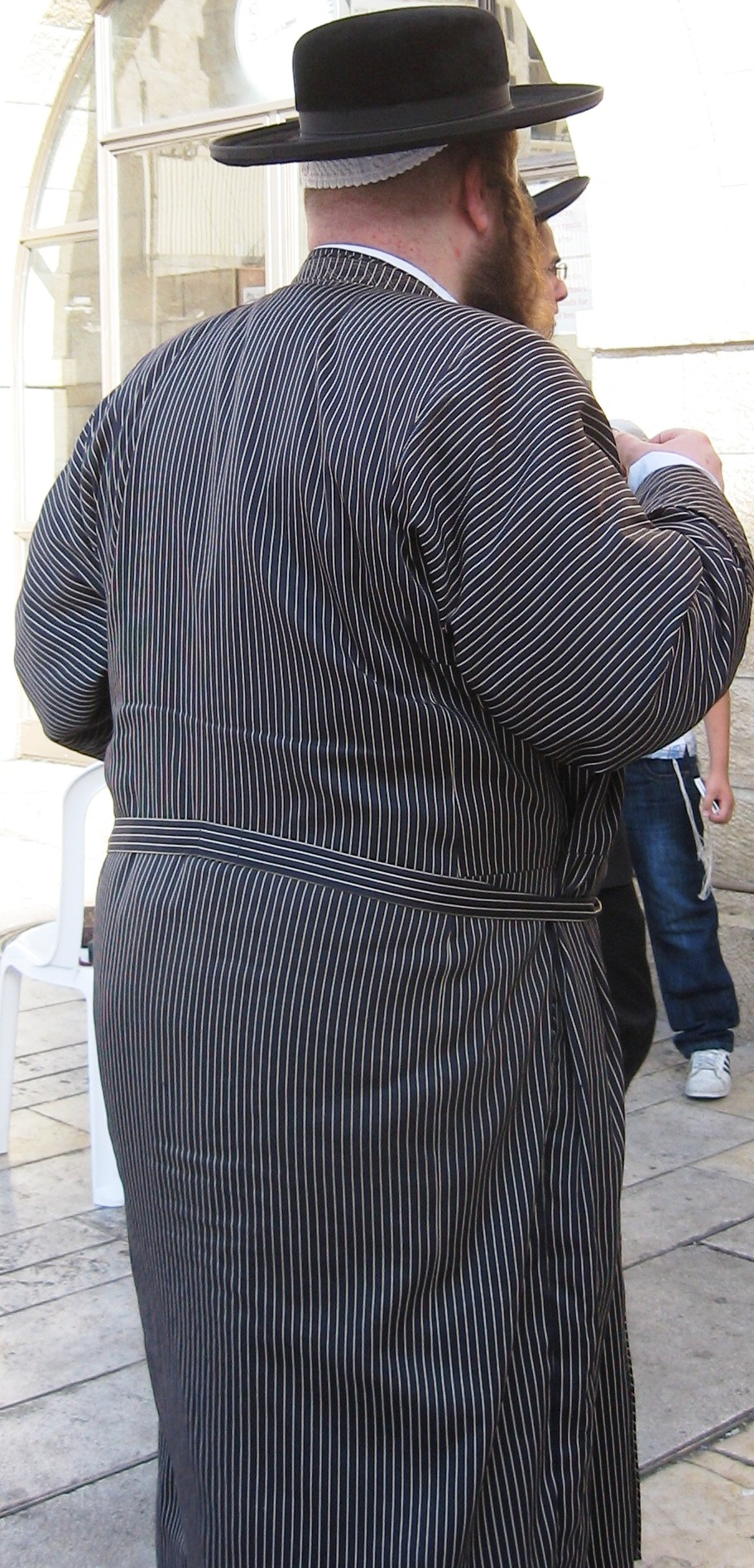 לבוש חסידי ירושלמי של חול25.9.09 Based on [1]